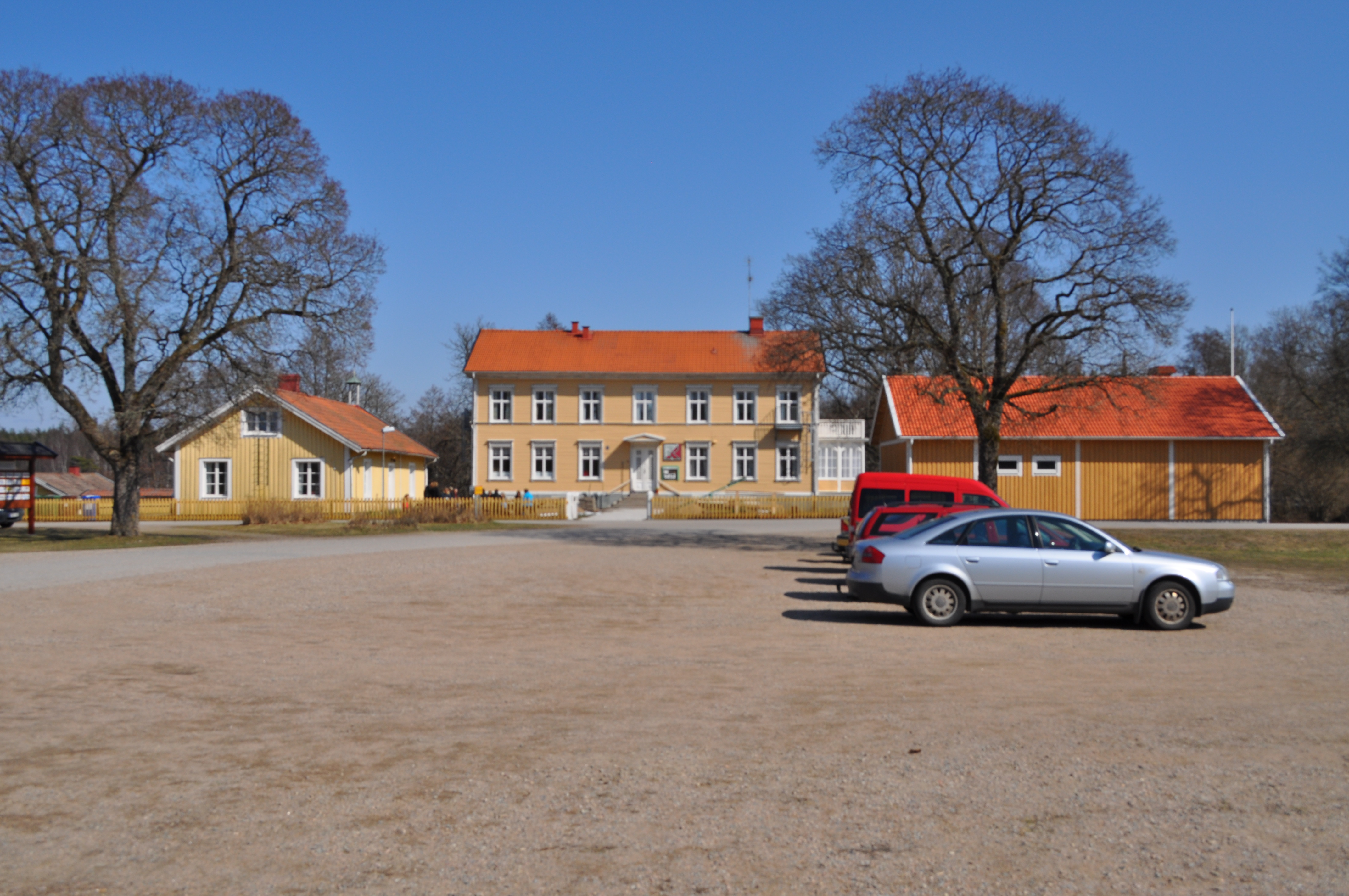 Karlsnäsgården-Ronneby Municipality